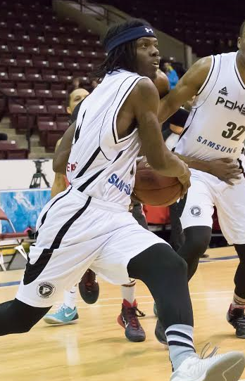 Mississauga Power basketball player Tyrone Garland drives to the basket in 2015.